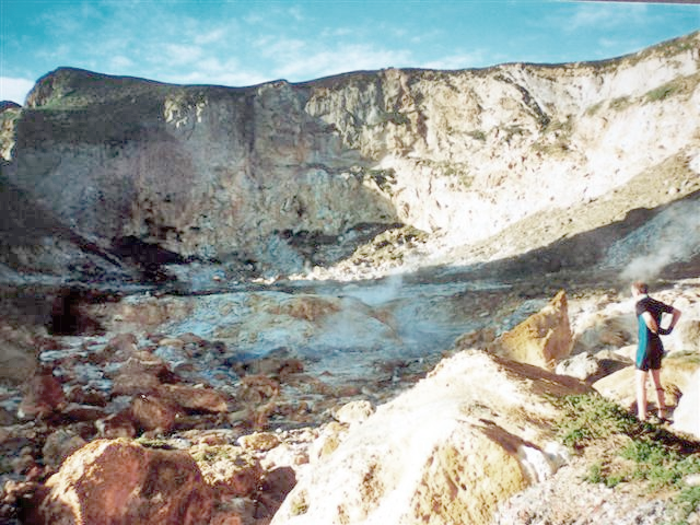 Crater of Curtis Island, Kermadec Islands, New Zealand. Photographed during NZ DOC-sanctioned visit by T Nicklin, B McGuire, L Mead, G Stevens & M Suckling.